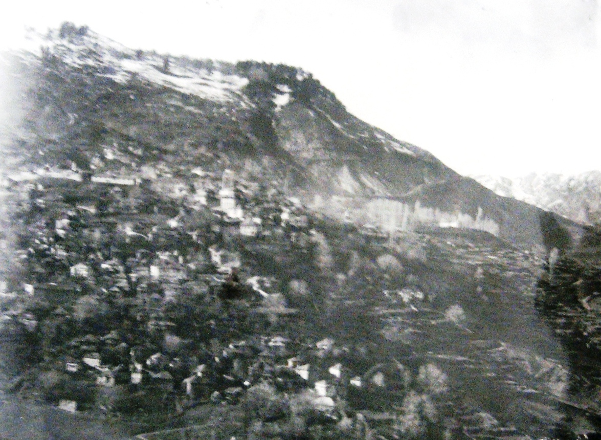 Panorama of the village Metsovo, 1899 (Damaged glass plate) This media file is produced by Wikipedian in Residence in Category:Wikipedian in Residence at DARM in 2016.